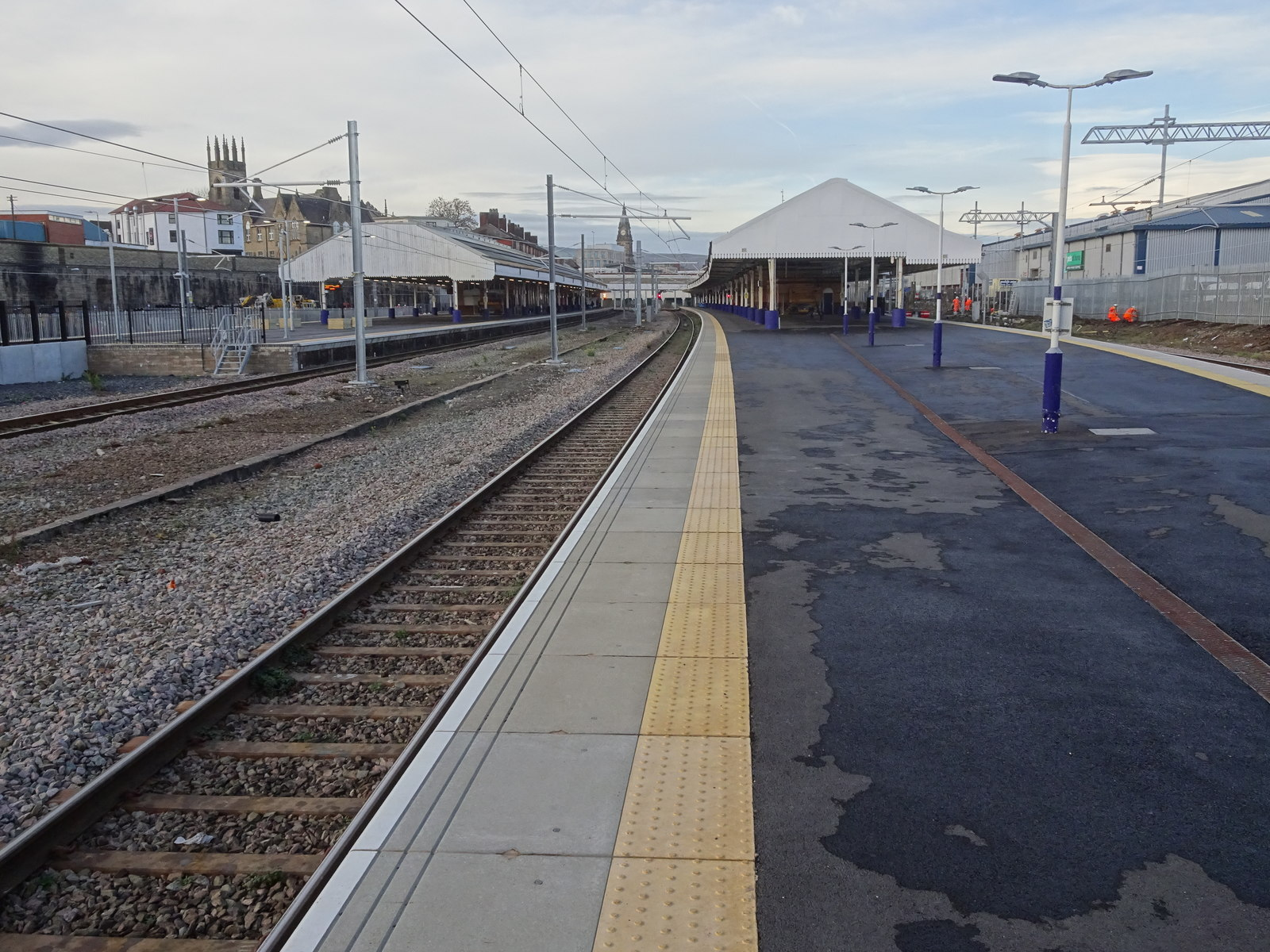 Bolton (Trinity Street) railway station, Greater ManchesterBolton (Trinity Street) railway station, Greater Manchester Opened in 1838 by the Manchester & Bolton Railway, later part of the Lancashire & Yorkshire Railway. The main entrance building was replaced in the 1980s. View north west shortly after the line was electrified.